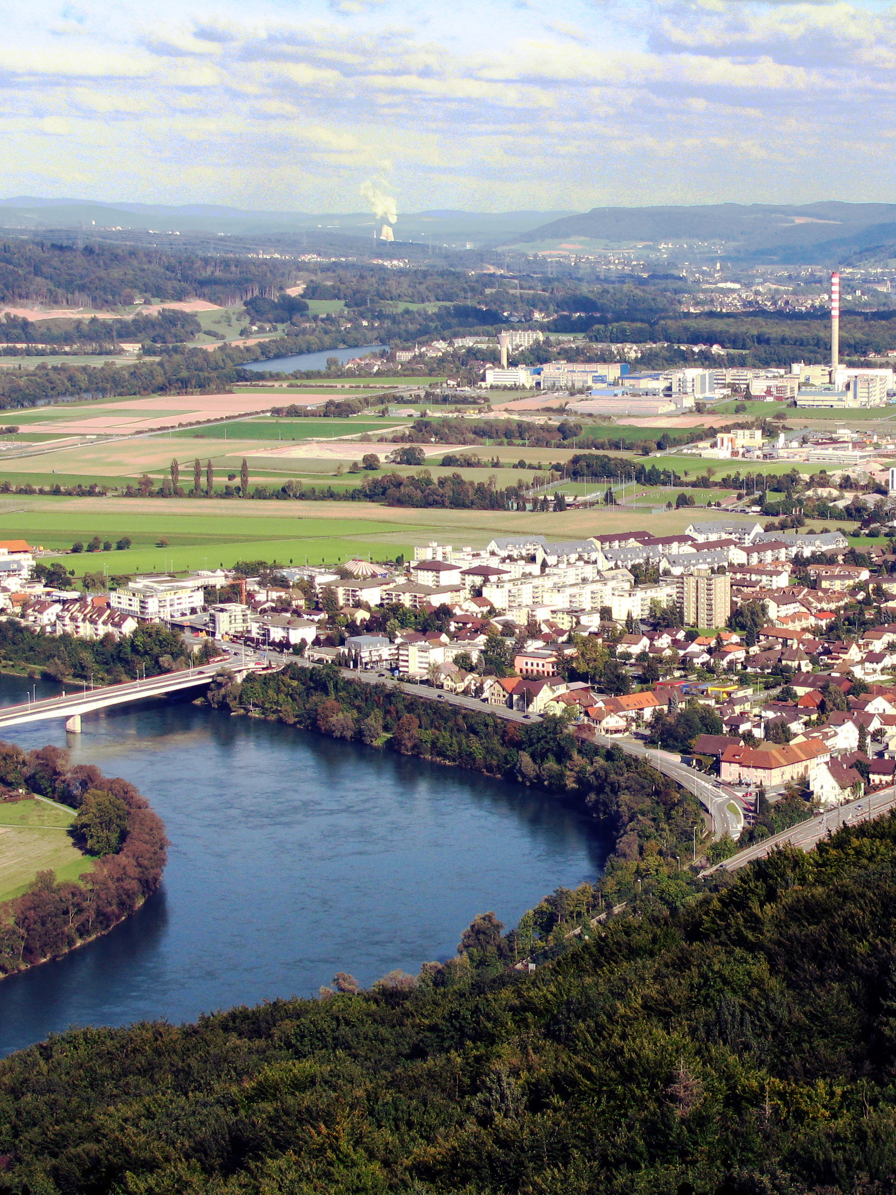 View of Stein, Aargau